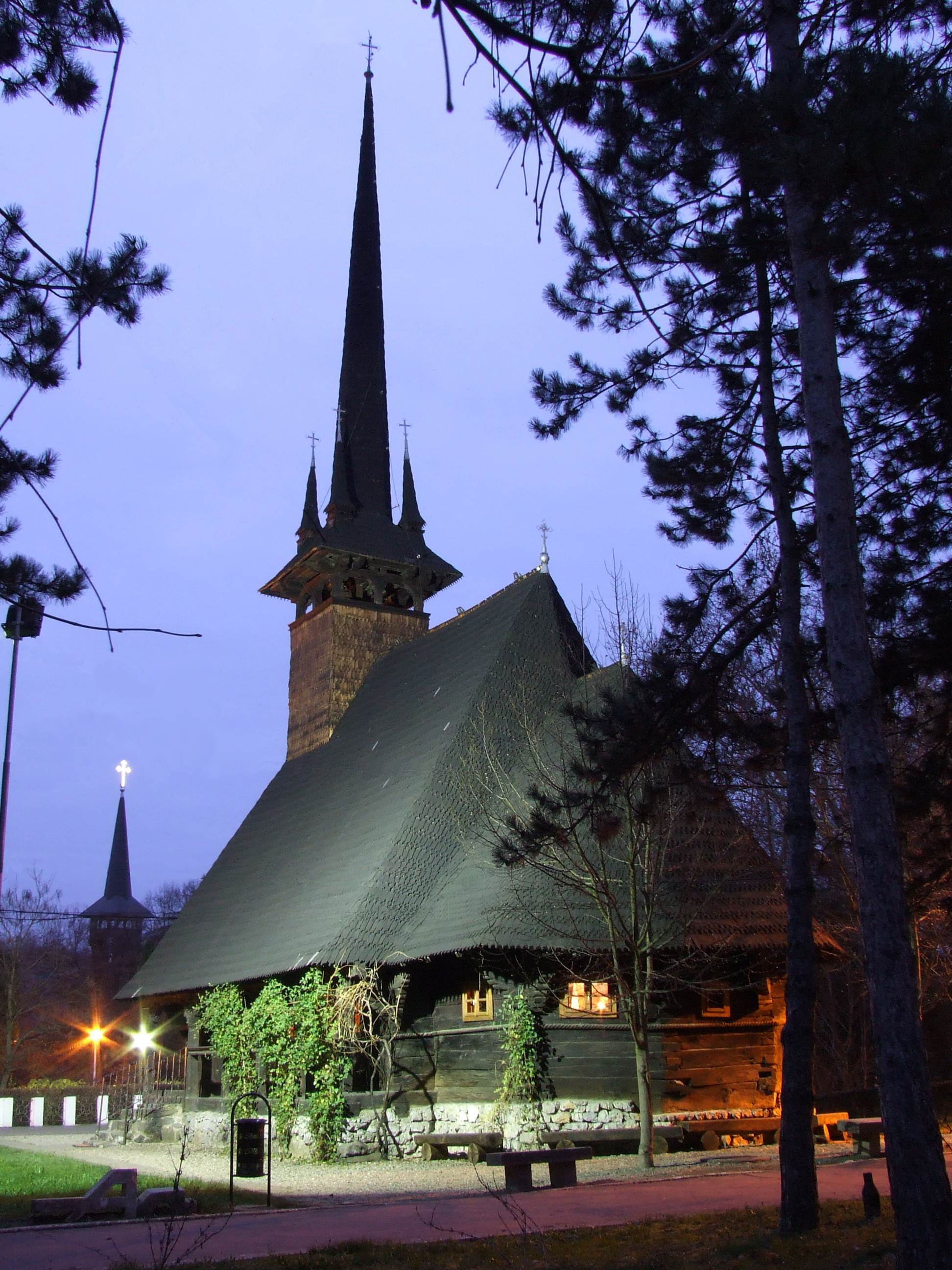 Brusturi Orthodox Wooden Church - Baile Felix, RomaniaRomână: Biserica ortodoxă de lemn "Sf. Arhangheli" din Brusturi - Băile Felix